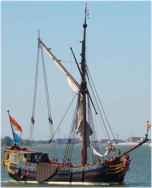 Recplica VOC States yacht, De Utrecht